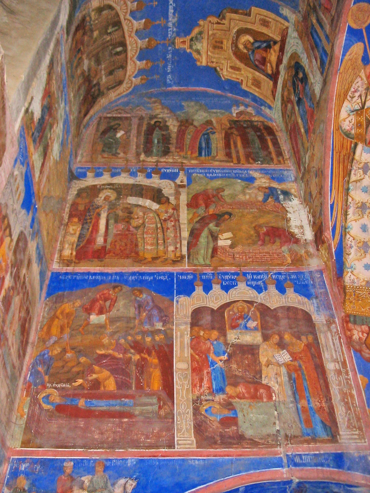 Fresco in Church of the Transfiguration at Spaso-Yevfimiyev Monastery (Suzdal)